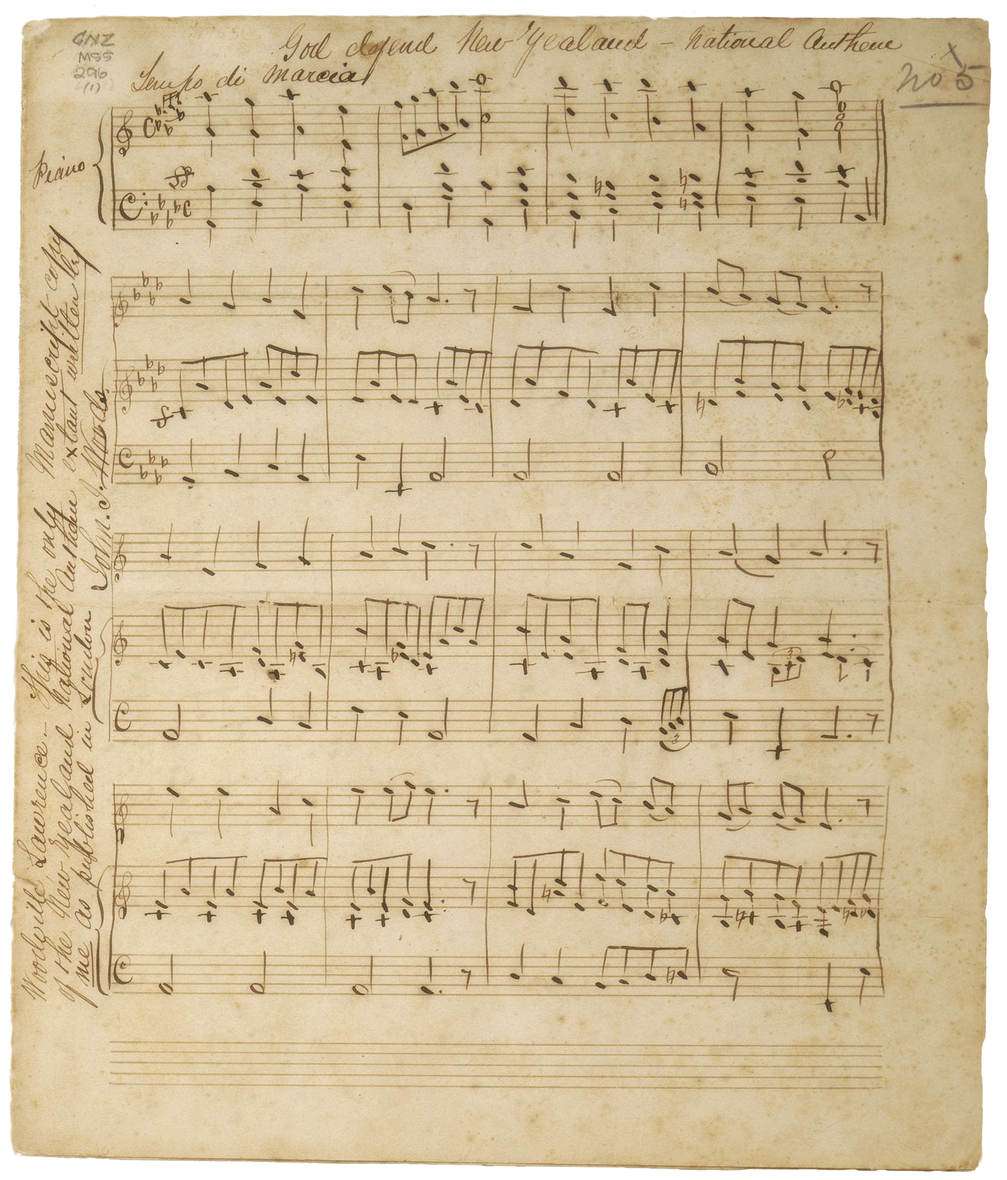 The original manuscript drafted by John Joseph Woods for God Defend New Zealand, currently the national anthem of New Zealand.